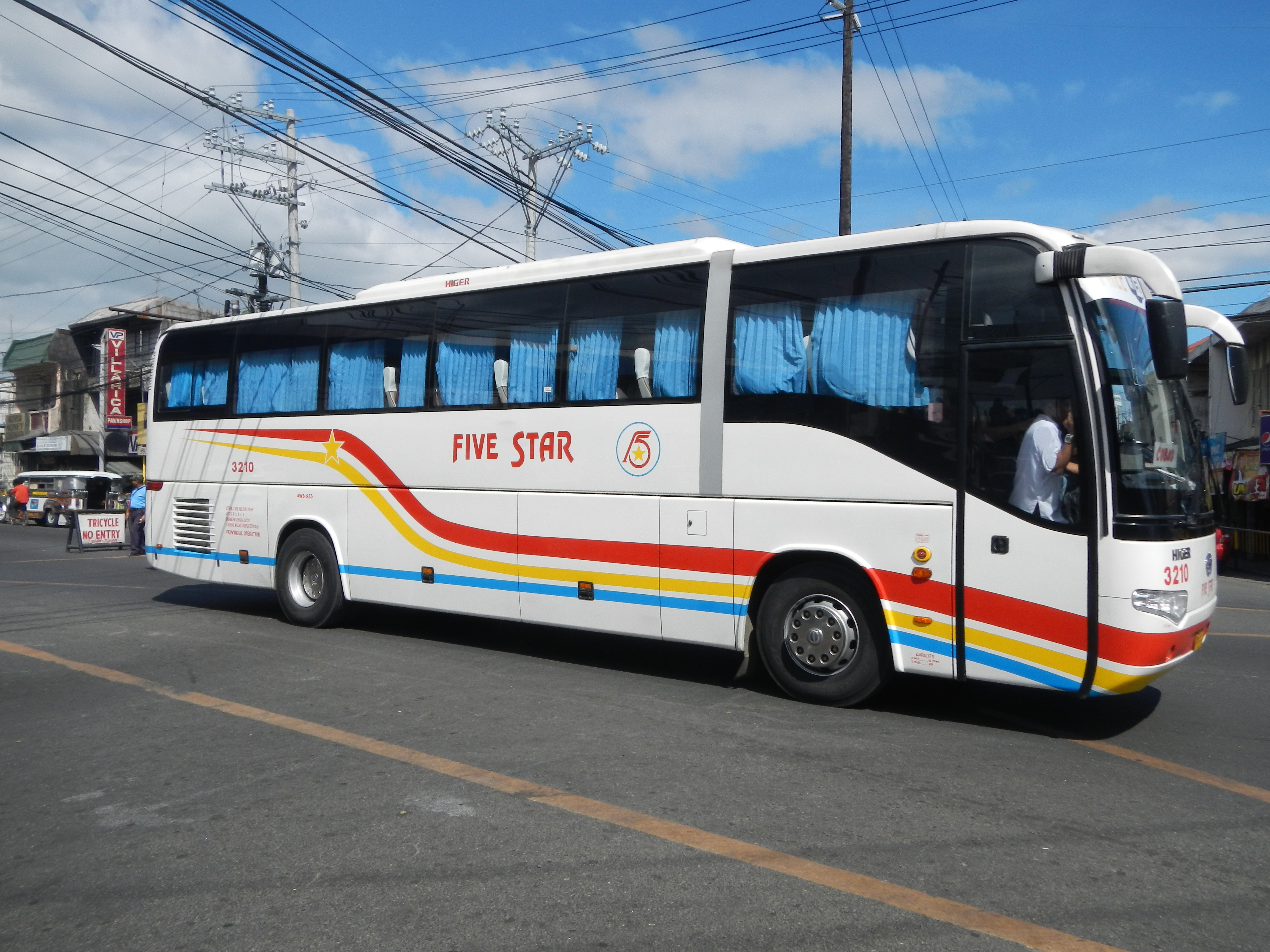 Upload Wizard photos of - downtown, Town Proper, Centro and Business Center, Crossing, Junction of - Plaridel, Bulacan [1], and Plaridel Irrigation Bridge and Plaridel Irrigation Canal and Dike At Banga 1st along the Pan-Philippine Highway or Daang Maharlika.